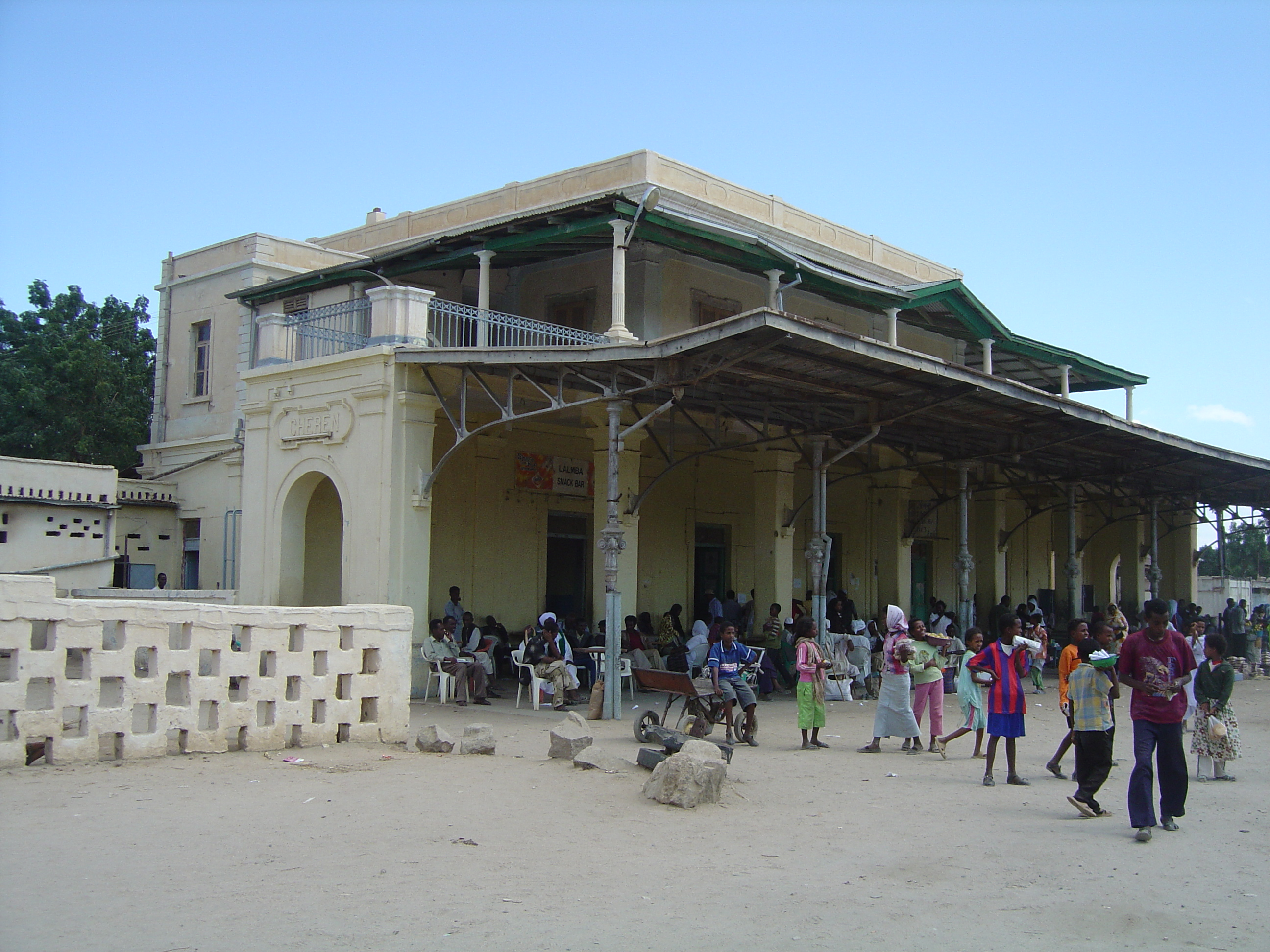 Keren railway station, Eritrean Railway